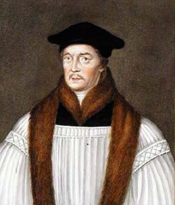 Stephen Gardiner (1483-1555)